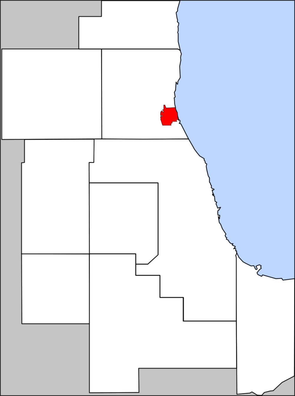 Location of Lake Forest in Chicagoland Created with Adobe Fireworks 4 PNG-8 Websnap adaptive color palette 1000 x 1343 resolution Category:Illinois city locator maps